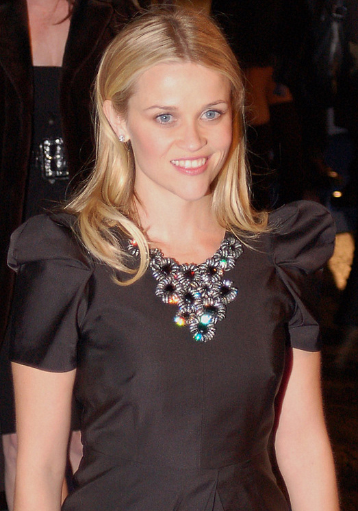 Reese Witherspoon at the "Monsters vs. Aliens" UK Premier 2009.